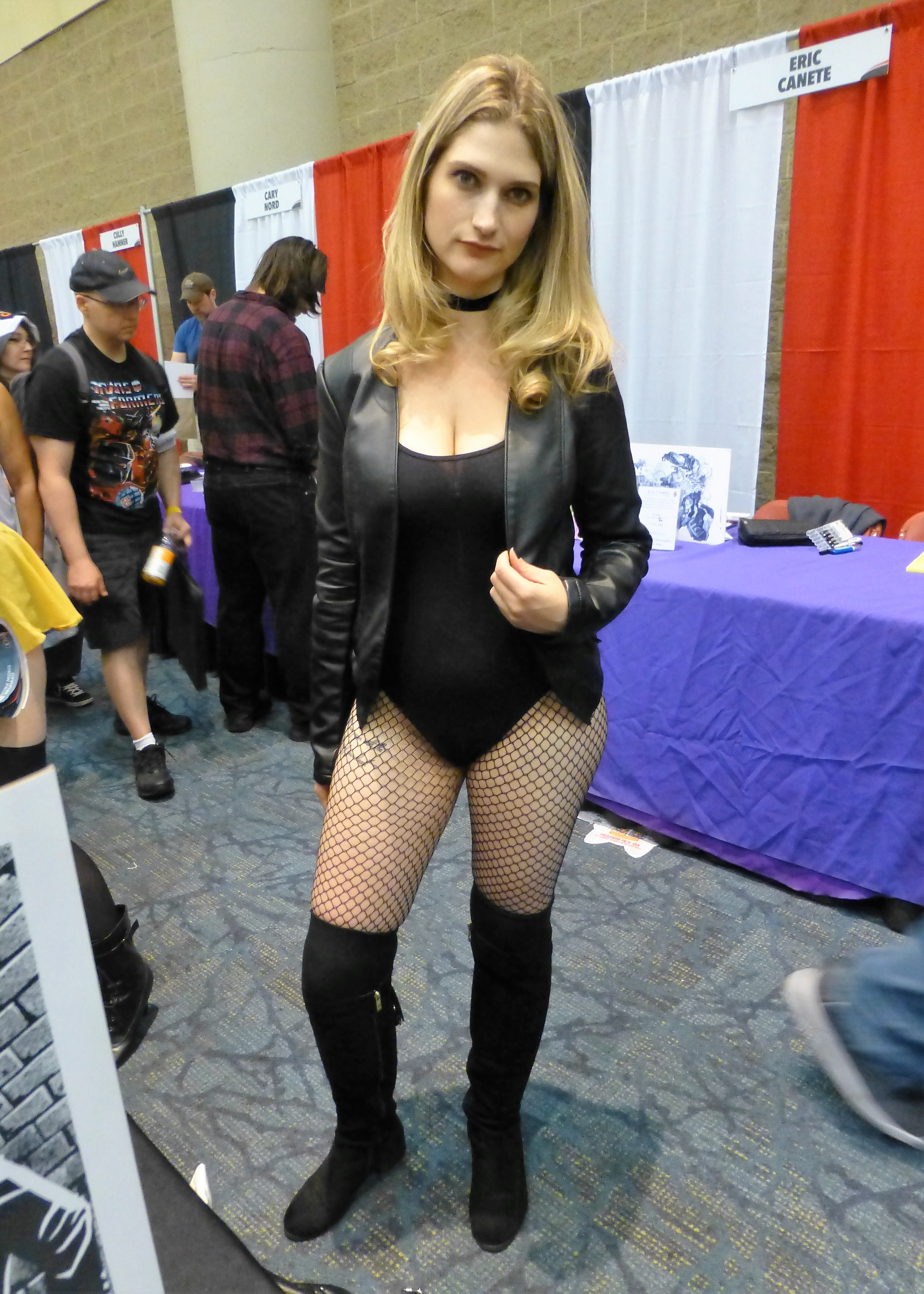 Black Canary Cosplay at Fan Expo Canada 2016.